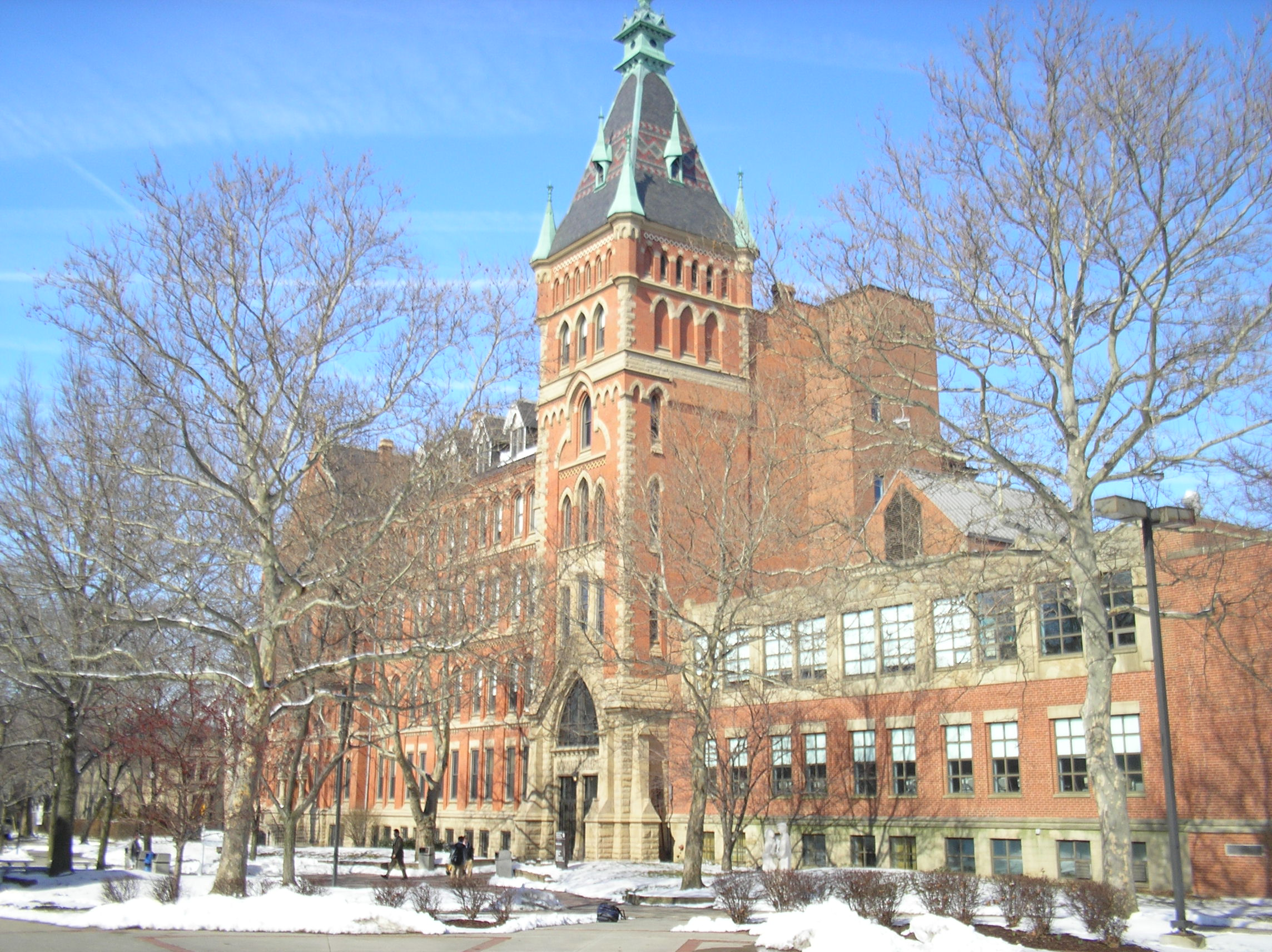 A picture of the Main Building of Saint Ignatius High School (Cleveland, Ohio)